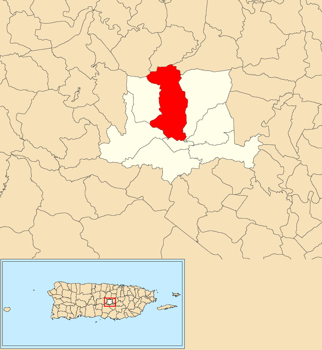 Barrancas, Barranquitas, Puerto Rico locator map